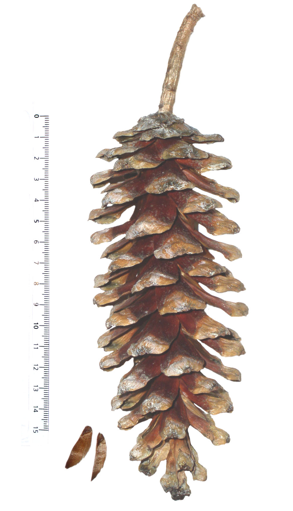 Pinus × schwerinii open cone and seeds (hybrid Pinus wallichiana × Pinus strobus), cultivated in Wrocław, Poland.